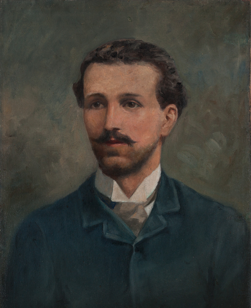 Portrait of José Asunción Silva